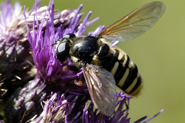 Picture taken in Commanster, Belgian High Ardennes . Species: female Sericomyia silentis